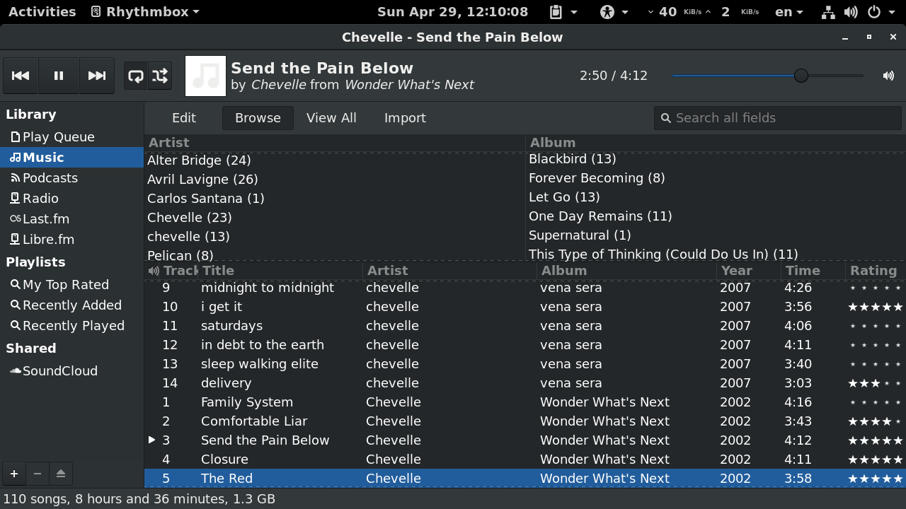 Rhythmbox v3.4.1 running on GNOME Shell v3.22